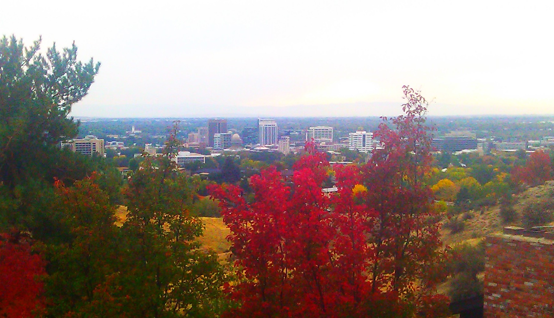 Foothills view of Boise, Fall 2013